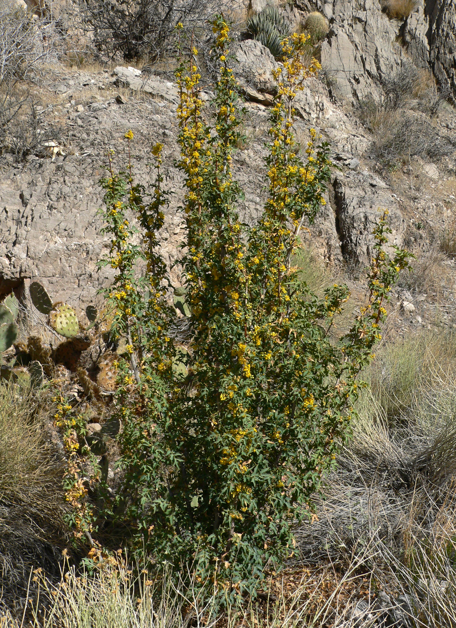 Mahonia fremontii in the wash just southeast of Virgin Peak, southern Nevada (elev about 1500 m)